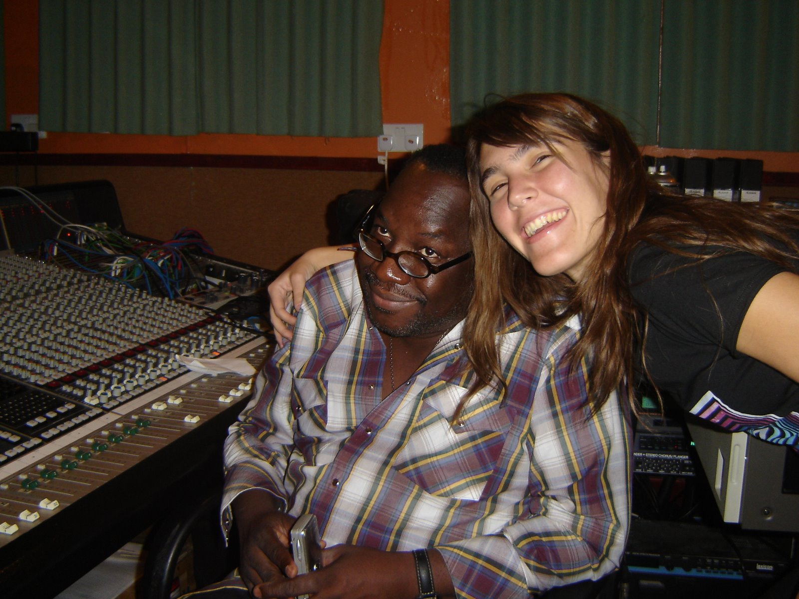 During The London Tour 2007 Victoria Quinn With MAD PROFESSOR in His Studio The Photo was taken during one of the record sessions between march and april 2007